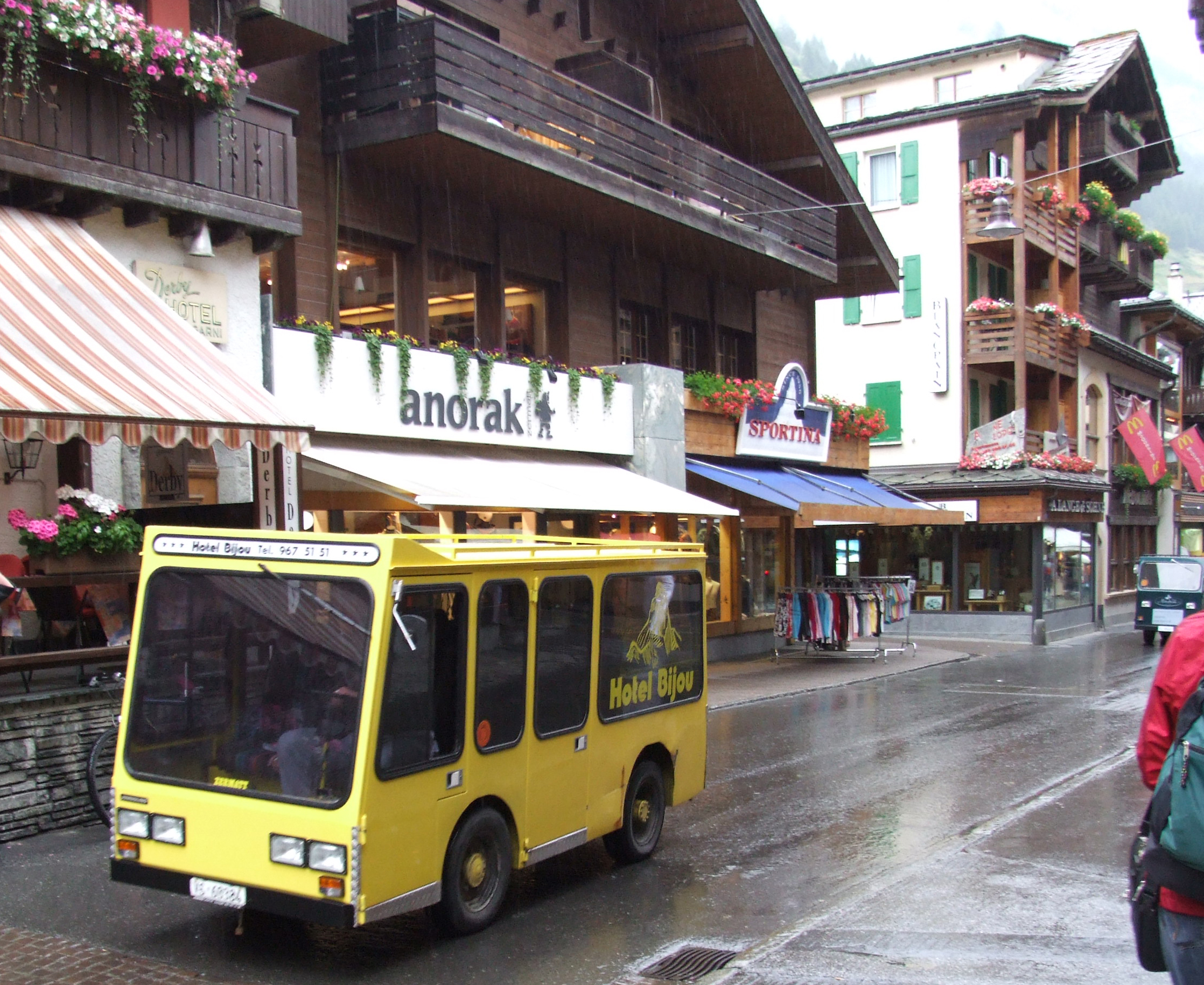 yellow electric vehicle in Zermatt, Switzerland